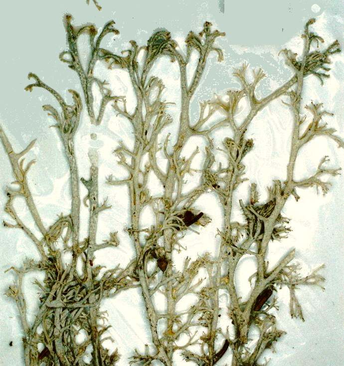 Cladonia arbuscula (Wallr.) Flotow Photograph of a herbarium specimen. This specimen of C. arbuscula was growing on soil along the Blue Trail at the Humboldt Field Research Institute on Eagle Hill in Steuben, Washington County, Maine, USA (Lat. 44o27.585' N, Long. 67o56.016' W). Collected by E.C. Uebel, determined by Dr. David H.S. Richardson (No. U-213, 11 Jun 2001)